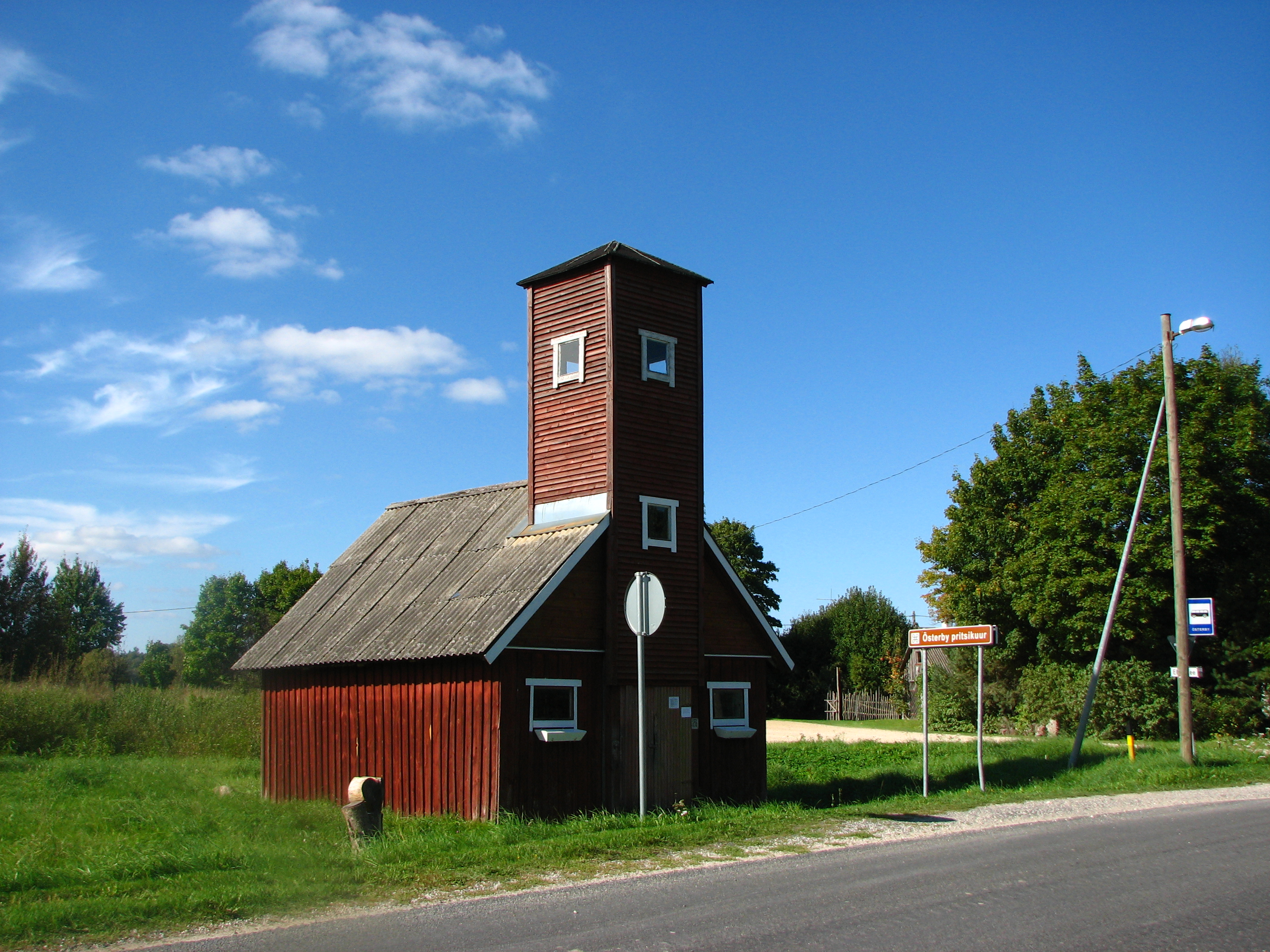 Österby fire station in September 2014